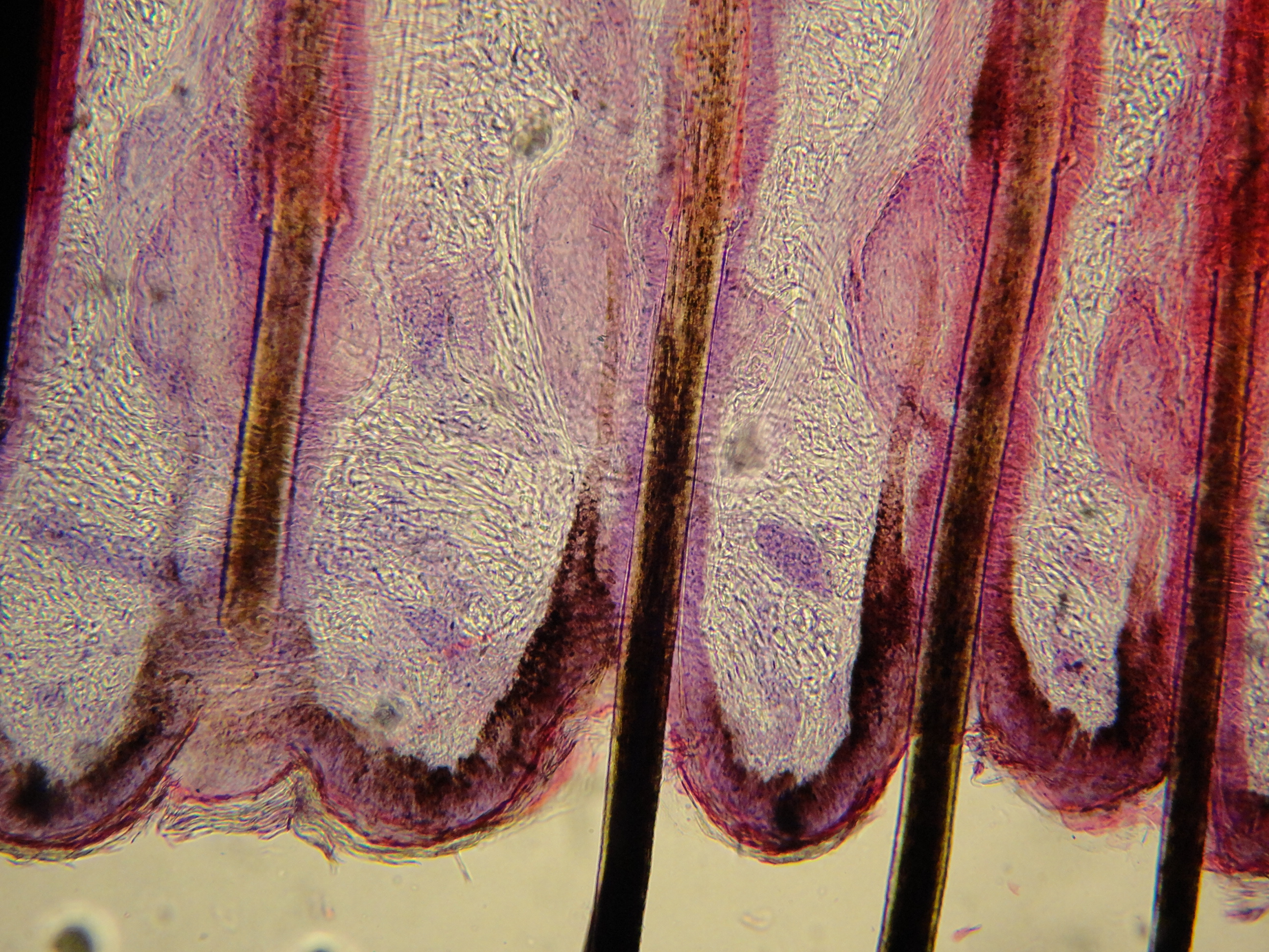 Hair follicle of feline, microscopic view 40X.